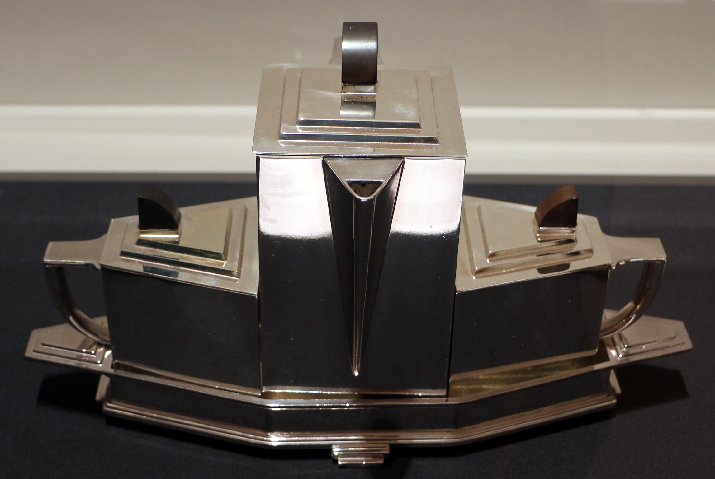 Metalware in the Milwaukee Art Museum